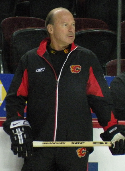 Head coach Mike Keenan during practice at the Calgary Flames' training camp.